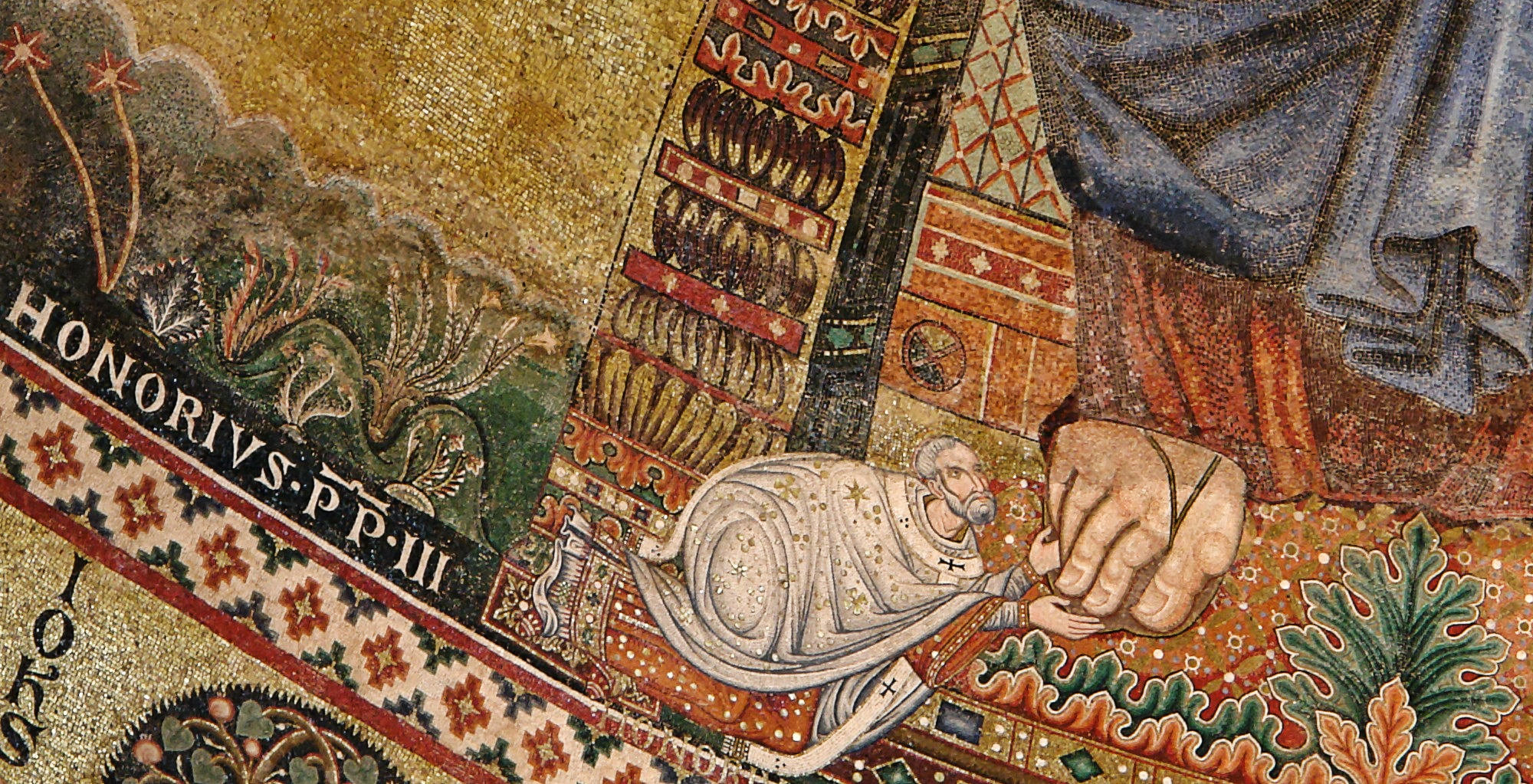 Portrait of Honorius III - Detail of the apse mosaic of the Basilica of Saint Paul Outside the Walls (1220) - Roma - Italy Pope Honorius III ordered the mosaic and, following the Roman Catholic tradition, is represented near Christ's feet. Pope Honorius III (1148 – 1227), born Cencio Savelli, was Pope from 1216 to 1227. [1]